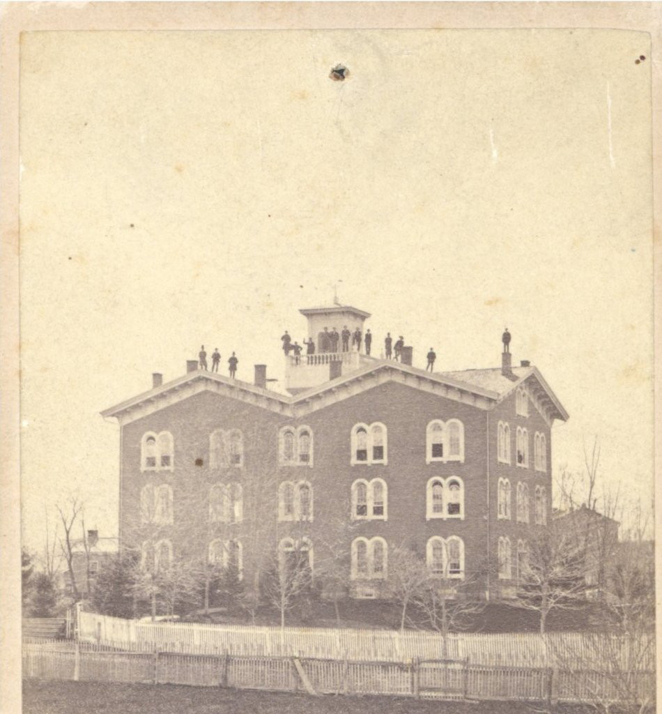 The Missionary Institute first and main building. It is now known as Selinsgrove Hall in Susquehanna University